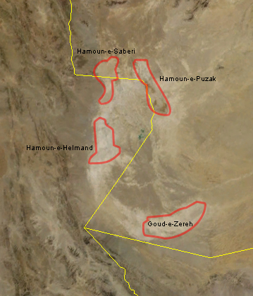 Hamoun lakes in Iran and Afghanistan